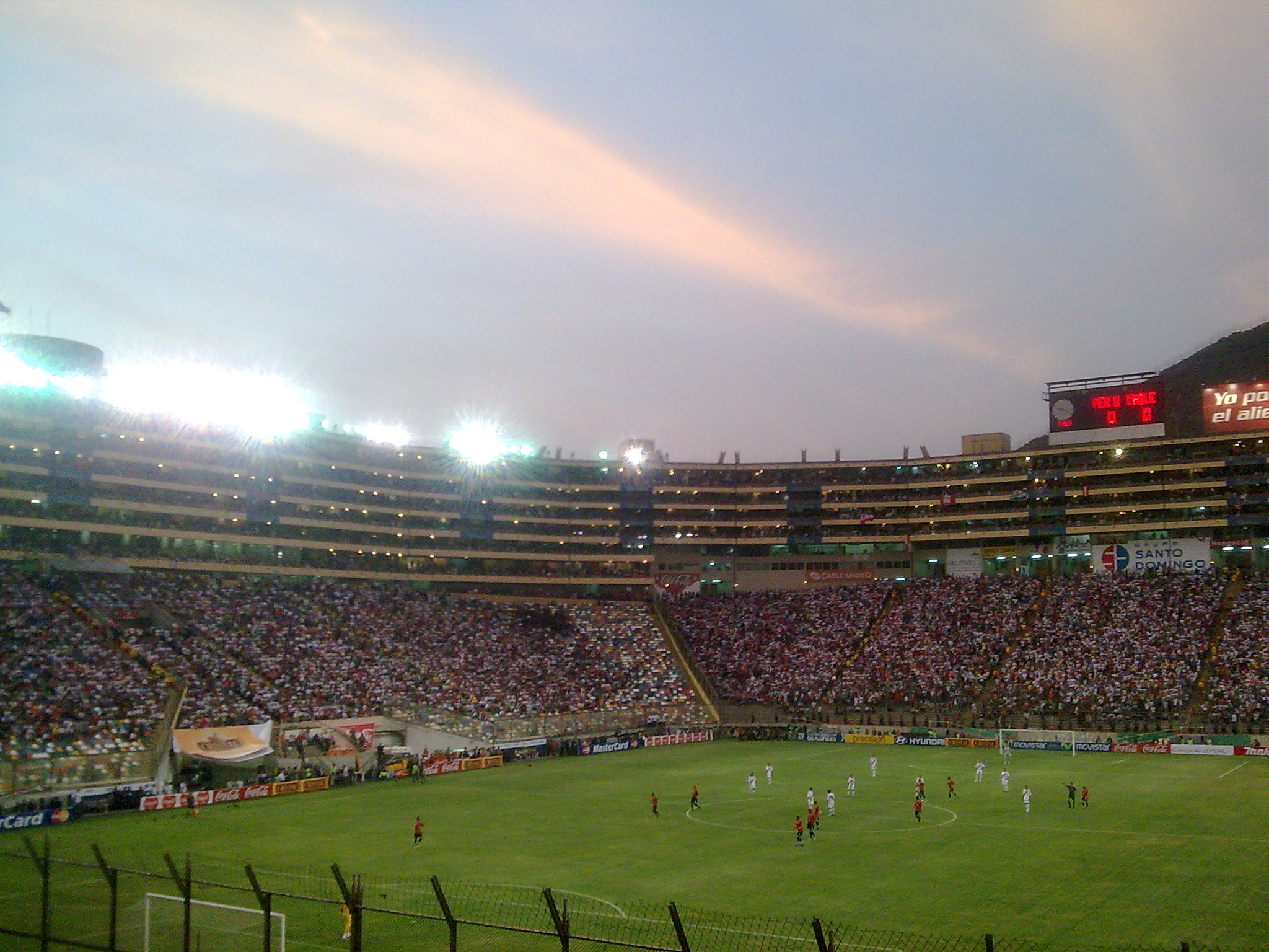 Monumental Stadium - Lima, Perú